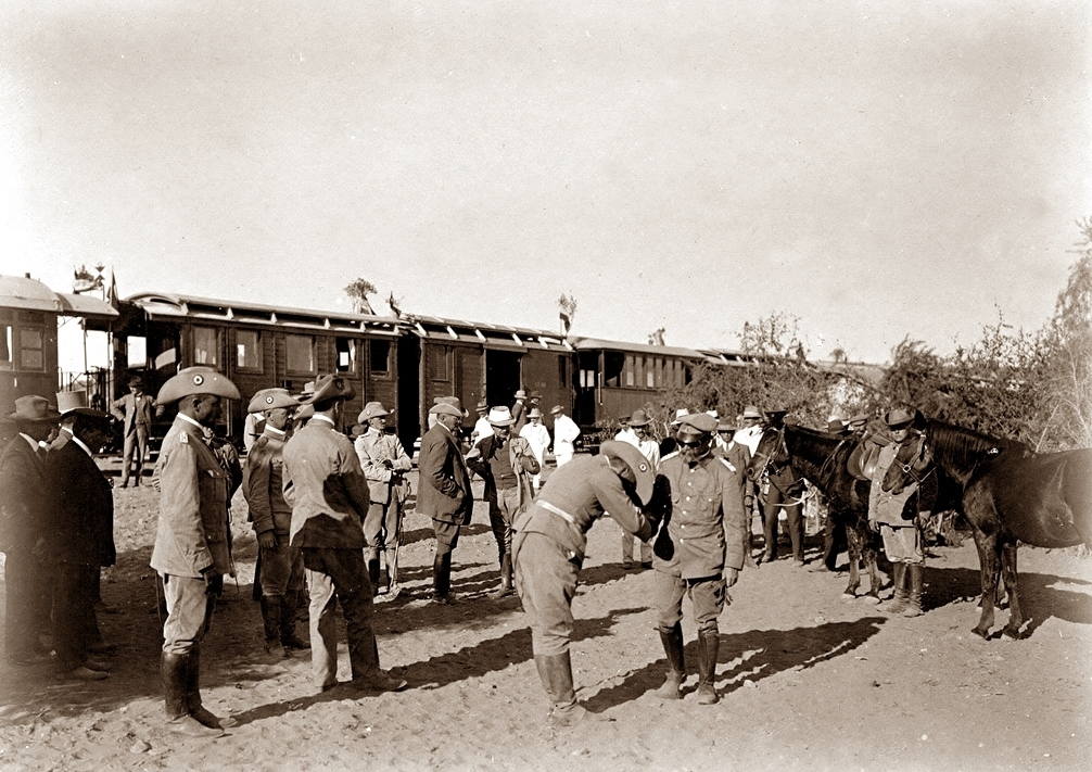 Commander von throtha